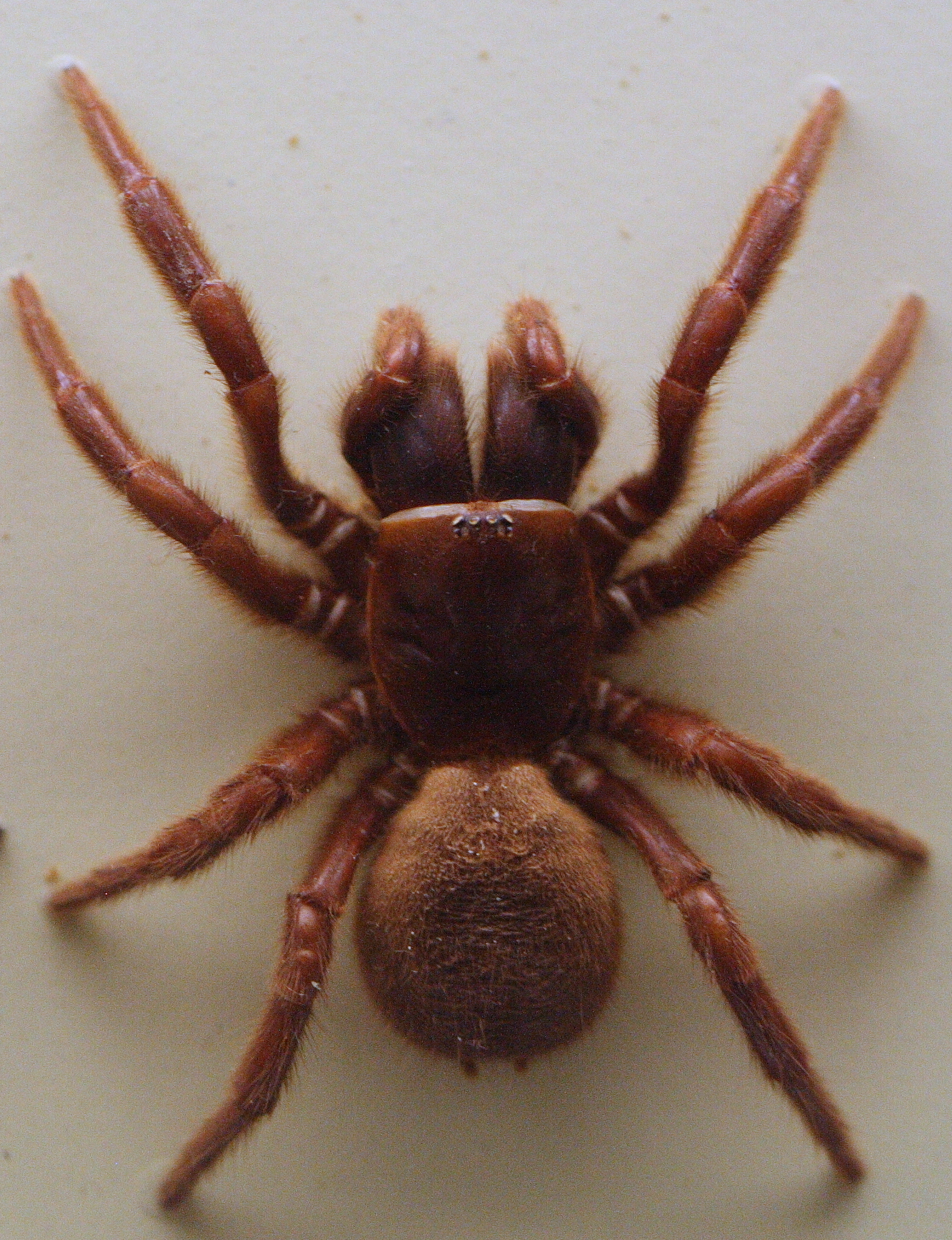 Specimen in the Australian Museum spider display.